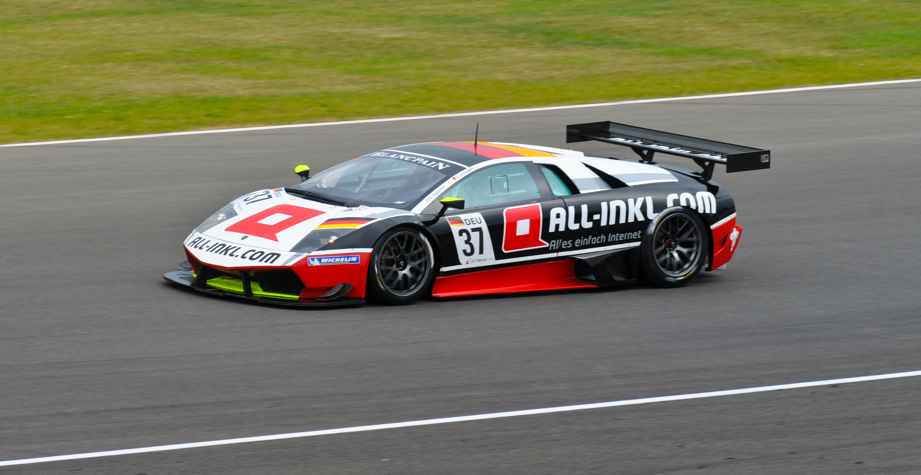 2011 FIA GT1 Silverstone round